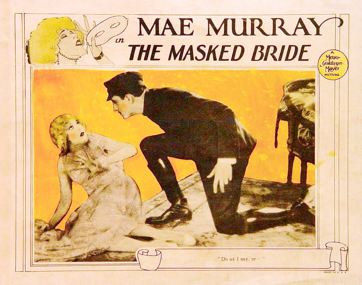 Lobby card for the American romantic drama film The Masked Bride (1925). There are no copyright marks on the card. At lower right is Made in USA.